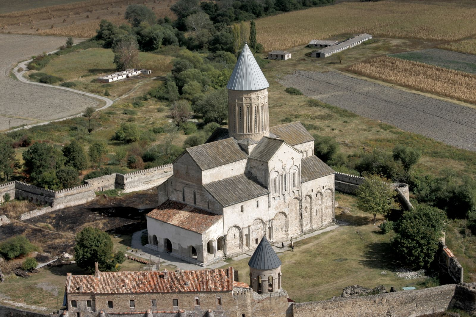 Alaverdi, bird's view of St George's Cathedral.